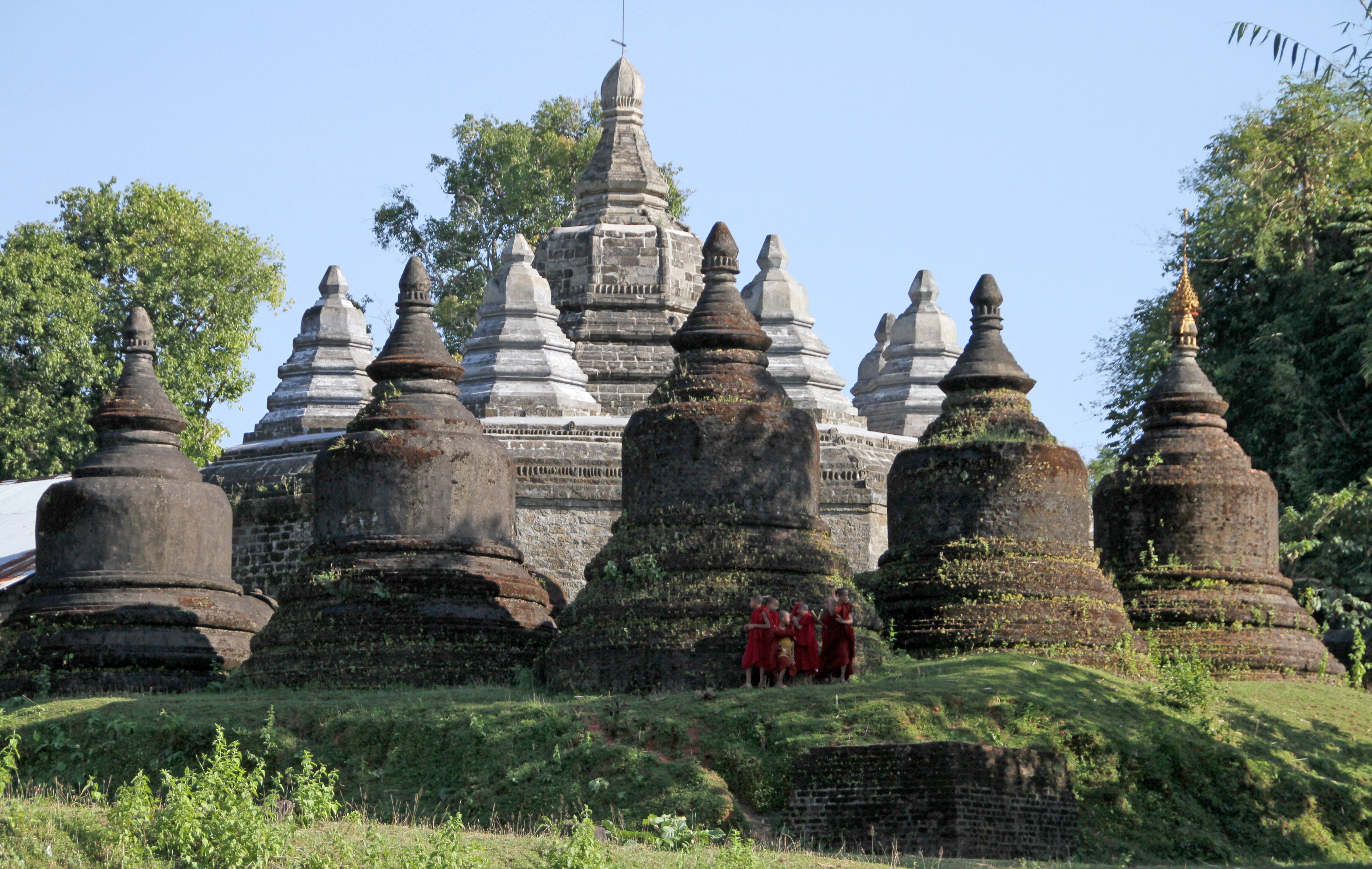 Andaw, ordination hall in Mrauk U, Myanmar.